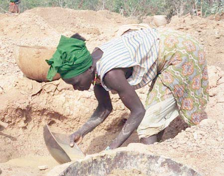 woman working in a gold mine, Siguiri Prefecture, Guinea